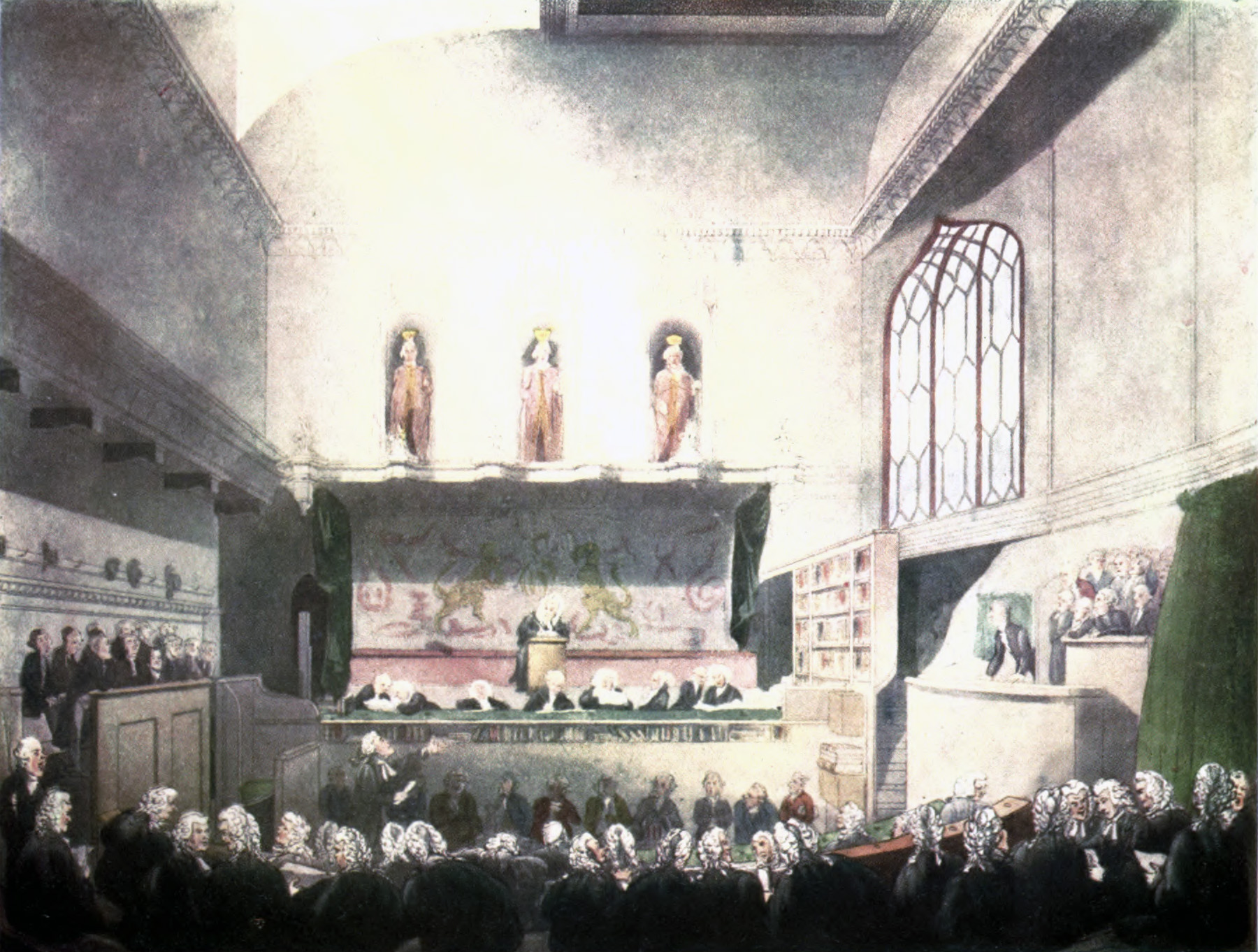 Court of King's Bench, Westminster Hall